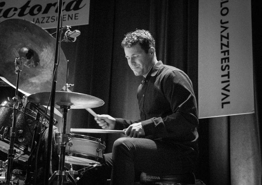 Erik Nylander at the stage with Bjørn Alterhaug Quintet at Victoria Teater. The concert was part of Oslo Jazzfestival and took place on 16. August 2017. Lineup: Bjørn Alterhaug (double bass), Jon Pål Inderberg (saxophone), Vigleik Storaas (piano), Frode Nymo (saxophone) and Erik Nylander (drums).